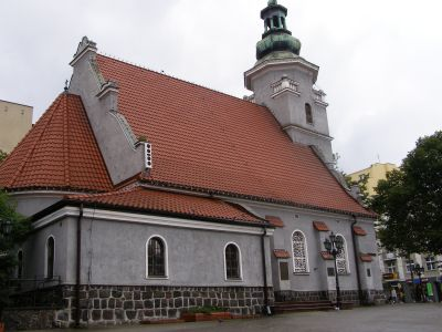 The collegiate church in Gdynia, Poland